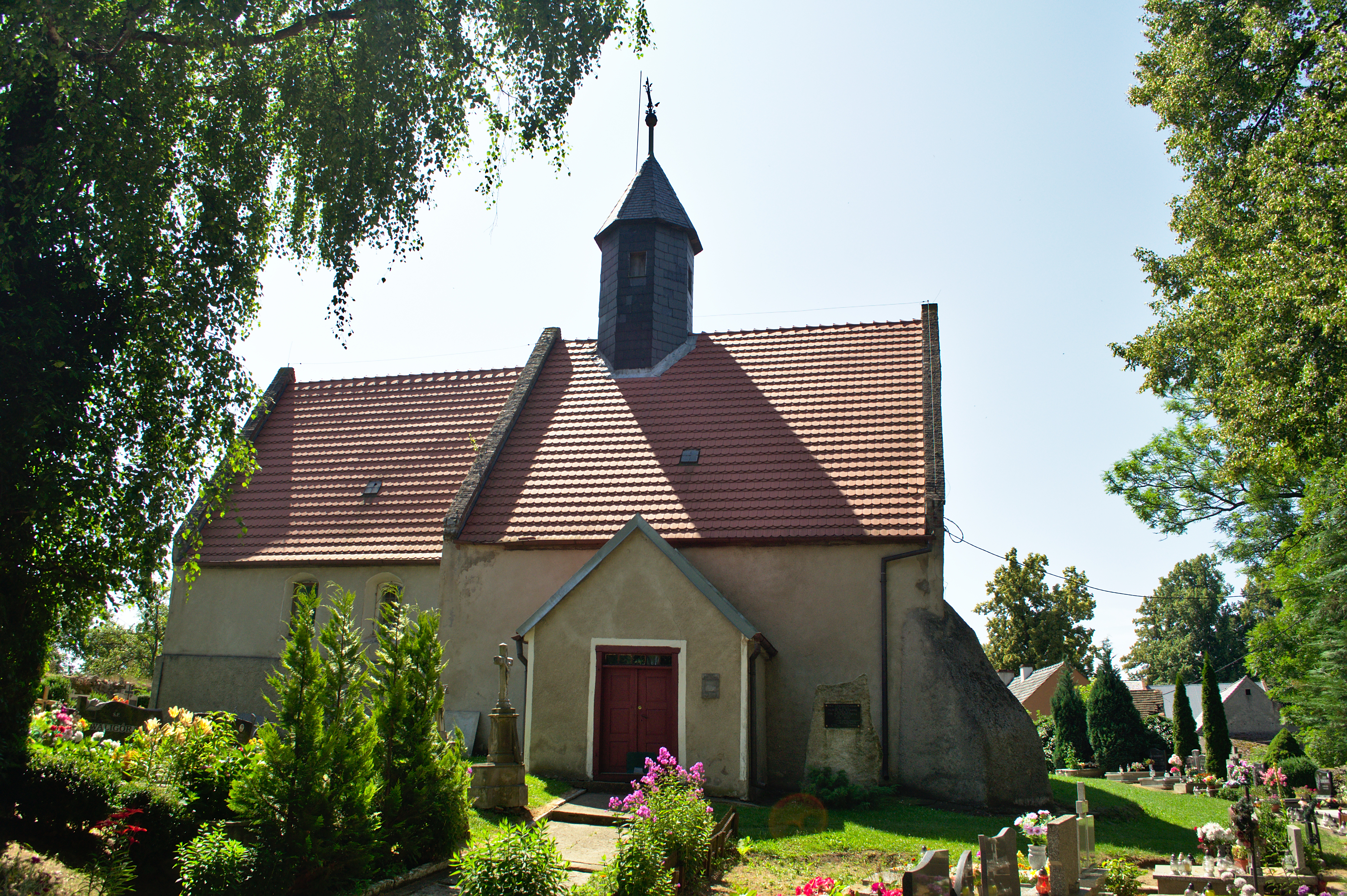 Church of the Assumption in Nowa Wieś Wielka, Poland